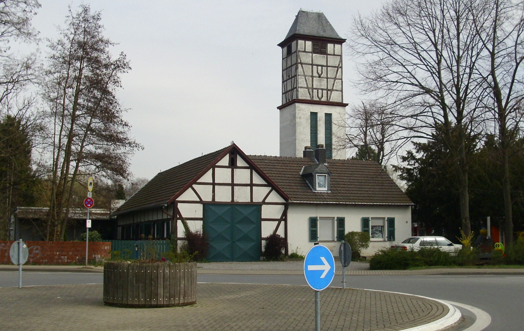 Fire station in Lendersdorf, older part, 1942.